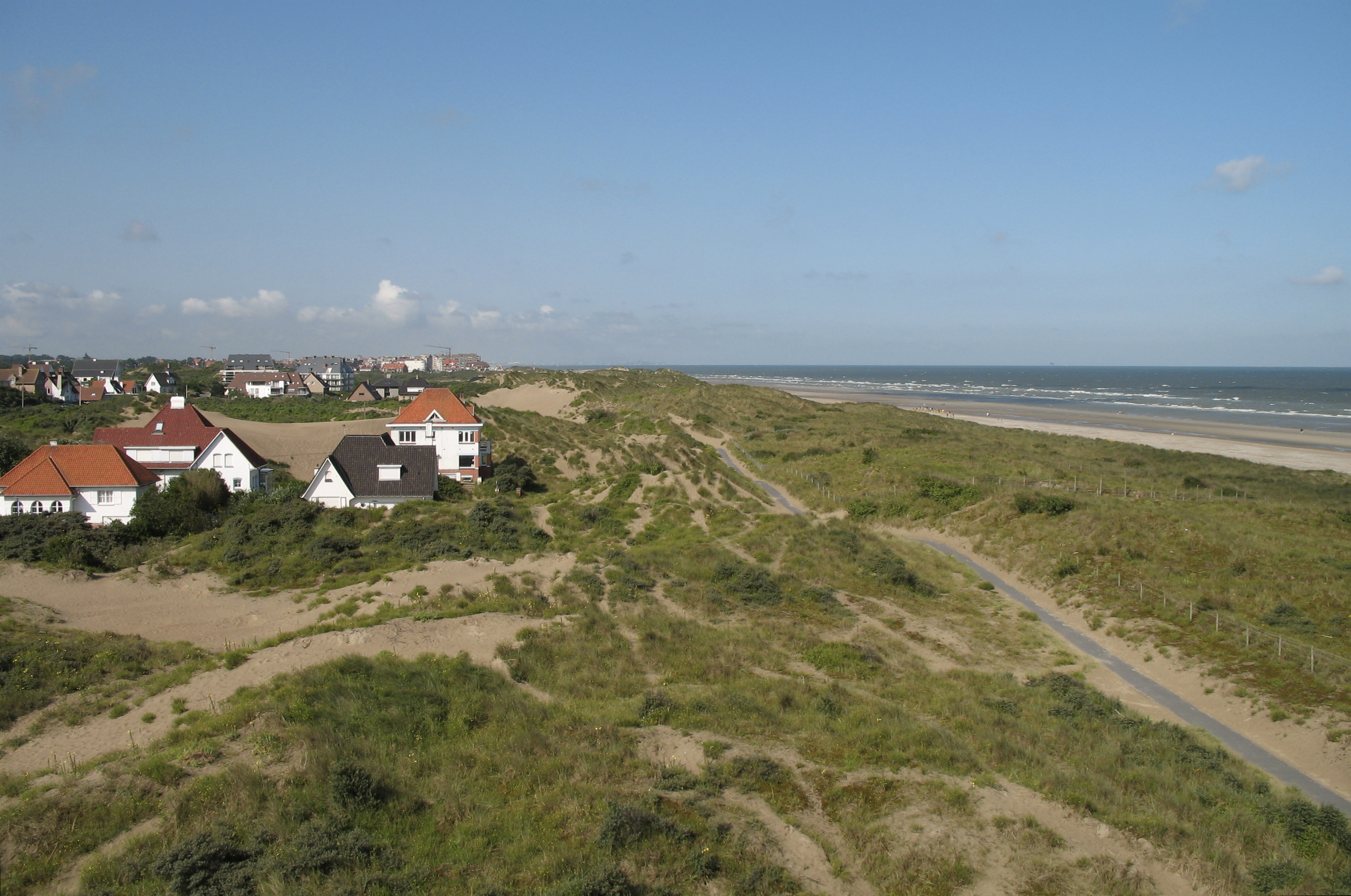 Koksijde (Province of West Flanders, Belgium): 'Schipgat' Dunes